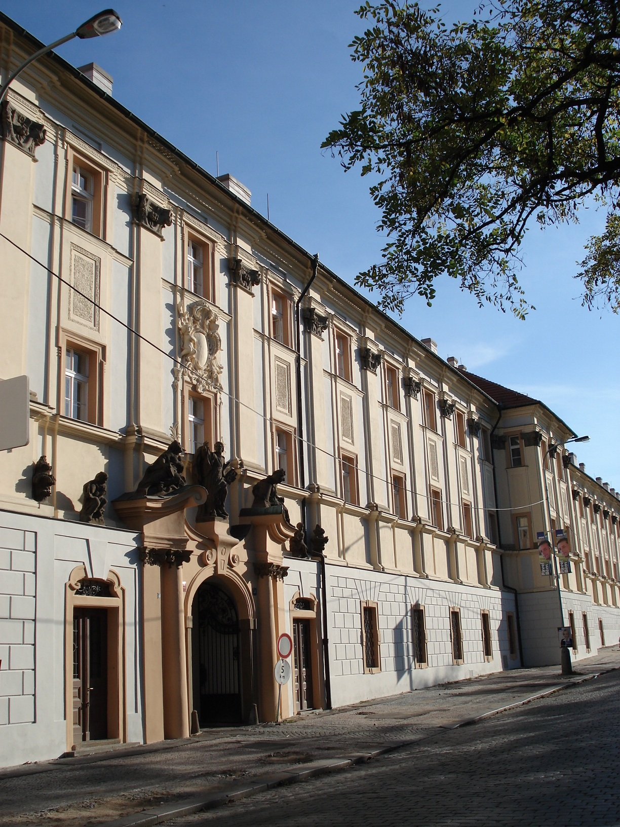 Facade of the faculty hospital on Charles' square in Prague